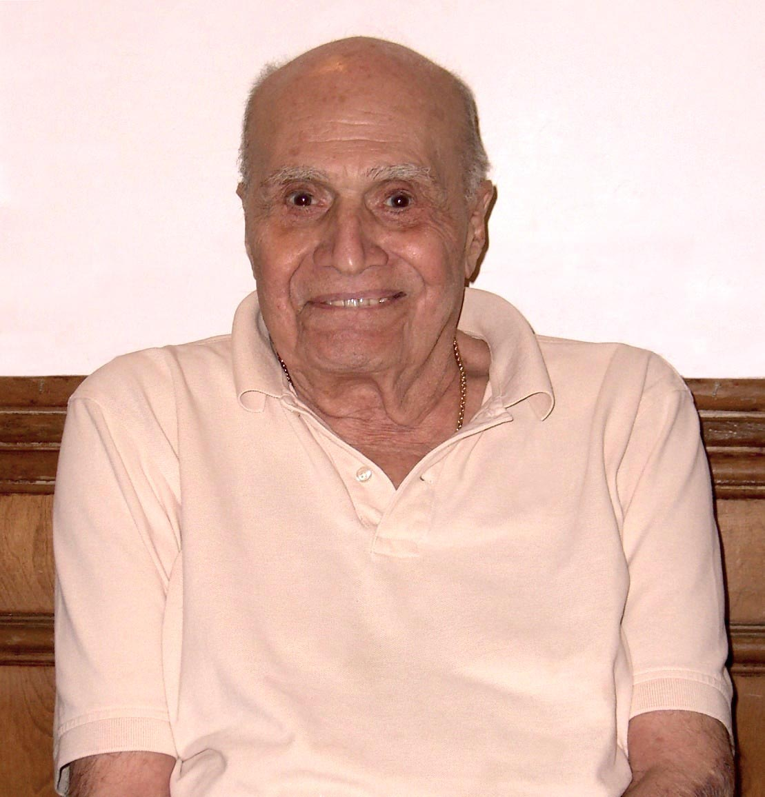 Comic book creator Carmine Infantino at the Big Apple Convention in Manhattan, October 2, 2010. This photo was created by Luigi Novi. It is not in the public domain, and use of this file outside of the licensing terms is a copyright violation.